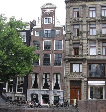 Keizersgracht 453 between Morlang (left) and Metz and Co. (right)